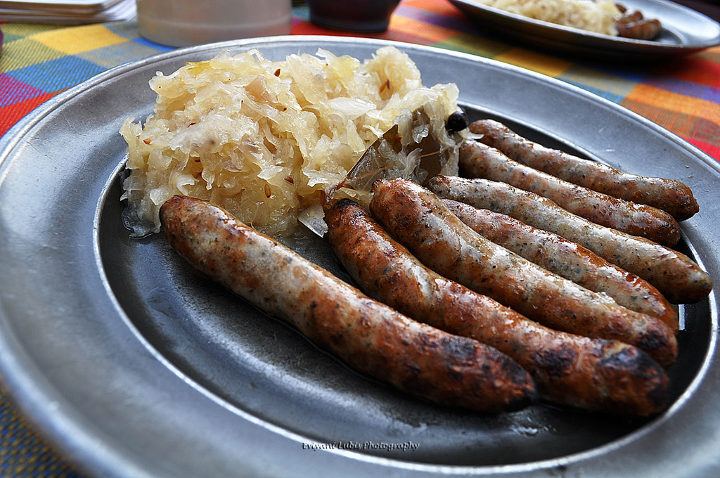 Fried sausages with sauerkraut on a plate. A traditional german dish in Nuremberg, Bavaria, Germany